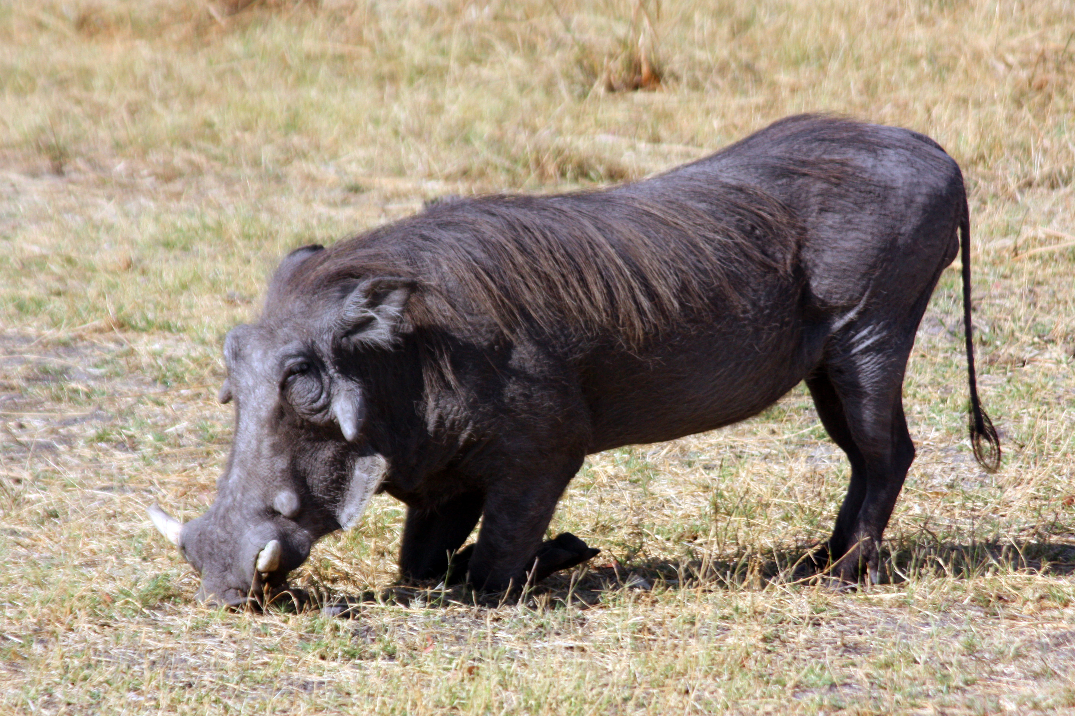 Male warthog (phacochoerus africanus) in Okavango Delta, Botswana